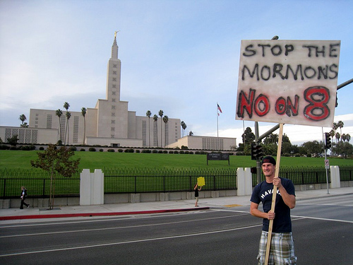 Protesters in front of the Los Angeles California Temple, voicing their opposition to the support for Prop 8 given by The Church of Jesus Christ of Latter-day Saints.